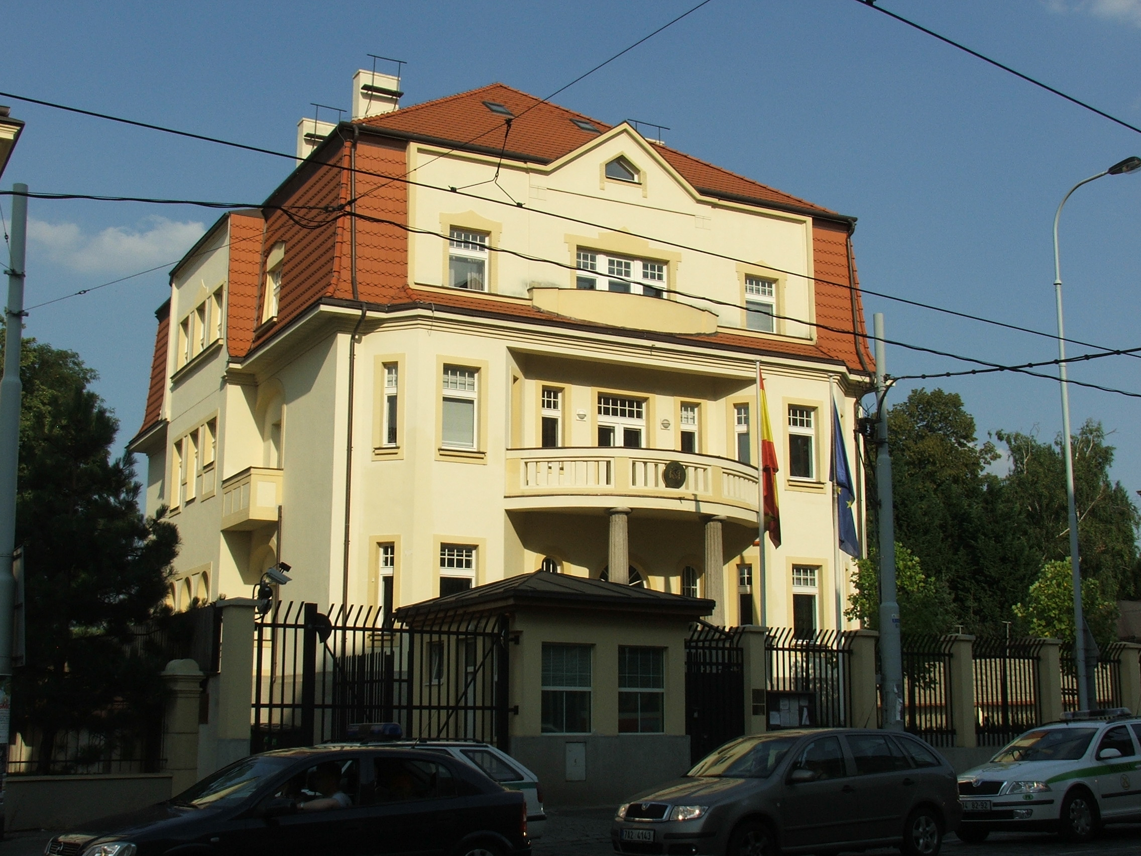 Embassy of Spain- chancery in Prague - Letná, Czechia.